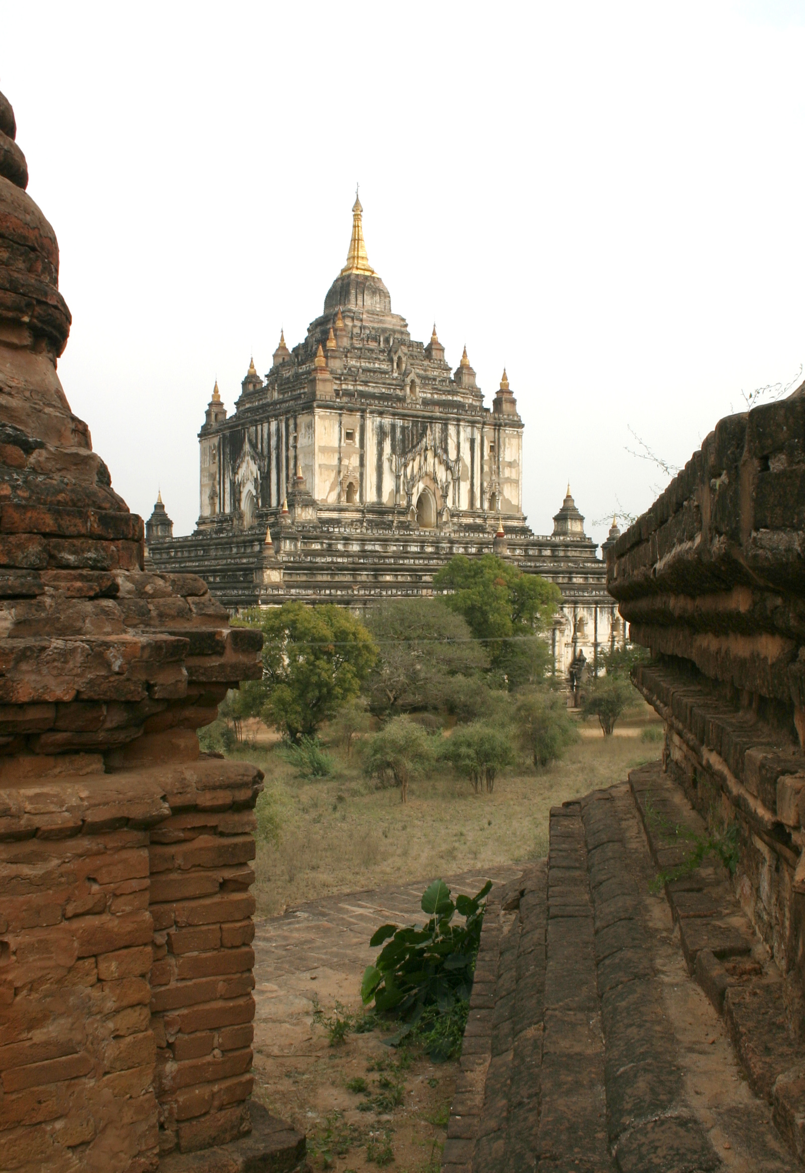 Thatbinnyu temple, Bagan, Myanmar.